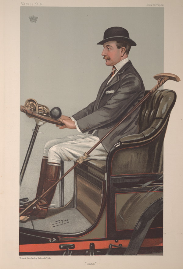 Statesmen No.758: Caricature of The Charles Henry John Chetwynd-Talbot, Earl of Shrewsbury and Talbot. Caption reads: "Cabs"